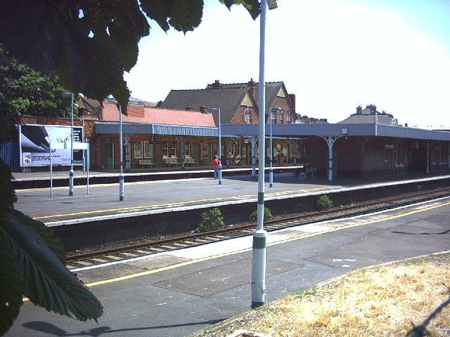 Streatham Common Station, Streatham Vale.